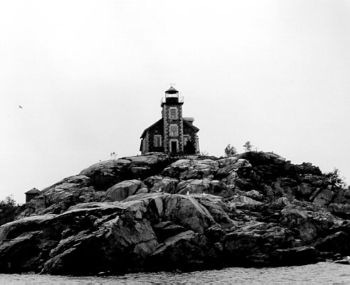 Granite Island Lighthouse